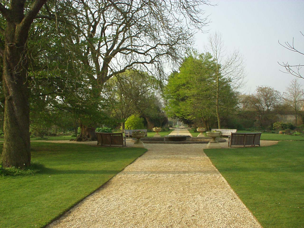 University of Oxford Botanic Garden, photograph taken by MPerel, April 2002